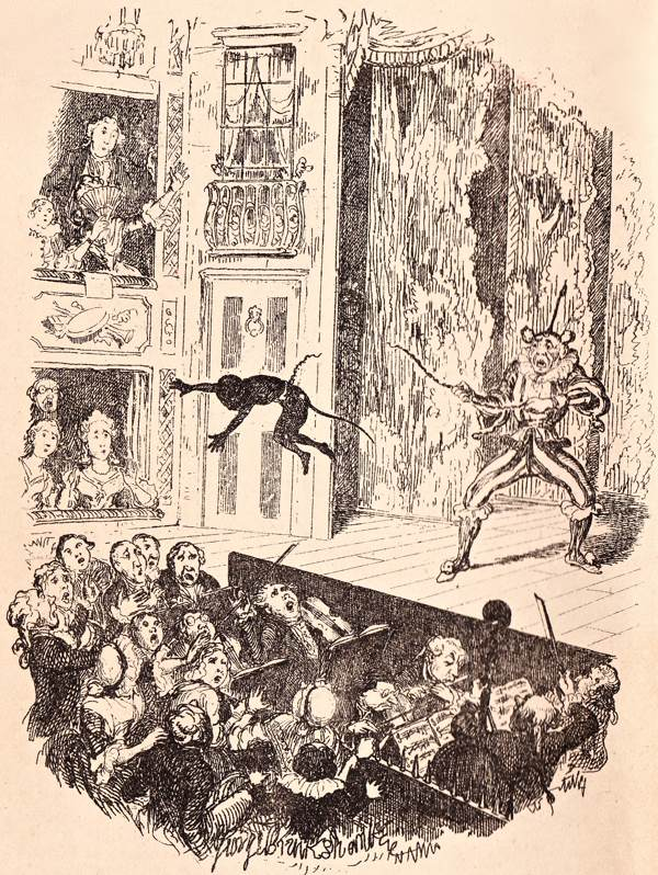 An illustration by George Cruikshank for Dickens' Memoirs of Joseph Grimaldi 1838, showing the young Joseph dressed as a monkey and falling into the orchestra pit after the chain broke with which his father had been twirling him.